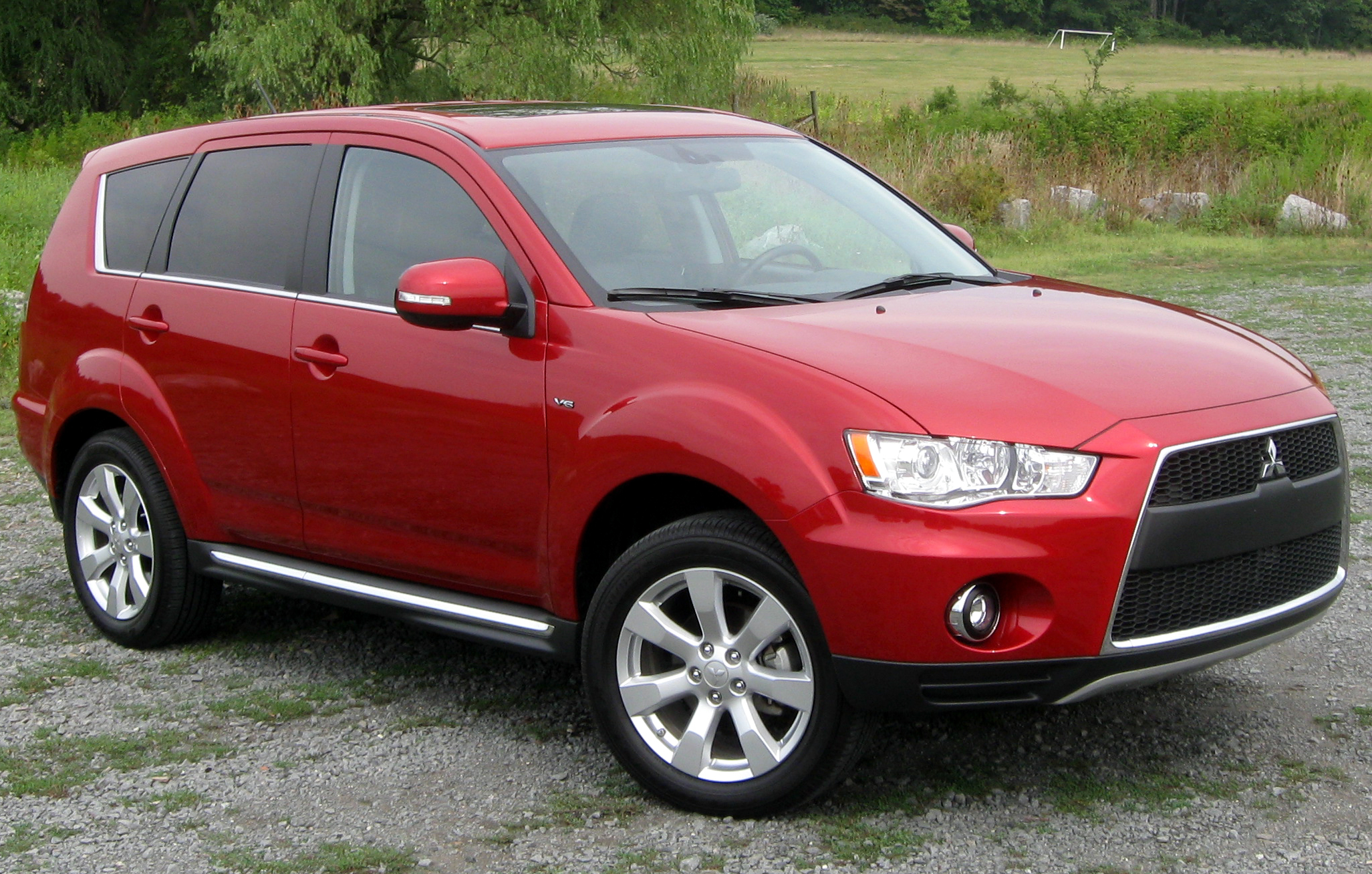 2011 Mitsubishi Outlander photographed in Chantilly, Virginia, USA.